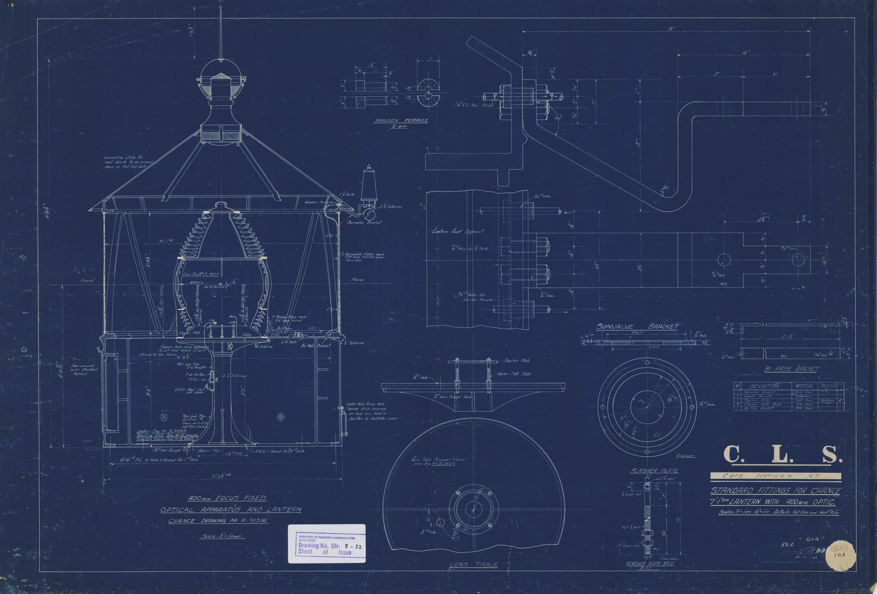 Cape Hotham - standard fittings for 400mm focus fixed optical apparatus and lantern. Chance drawing